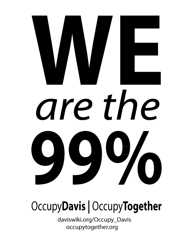 from DavisWiki